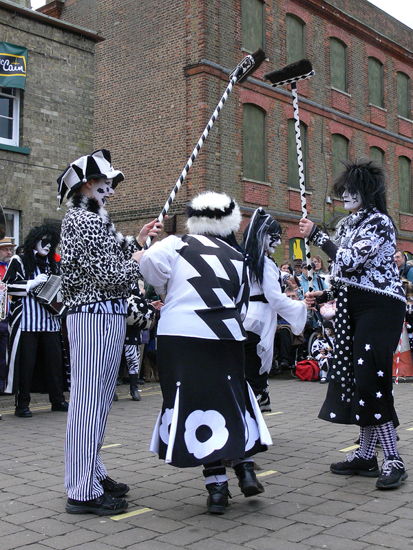 Members of Pig Dyke Molly dance team in action at Whittlesea Straw Bear Festival 2007 in Whittlesey, Cambridgeshire, UK.